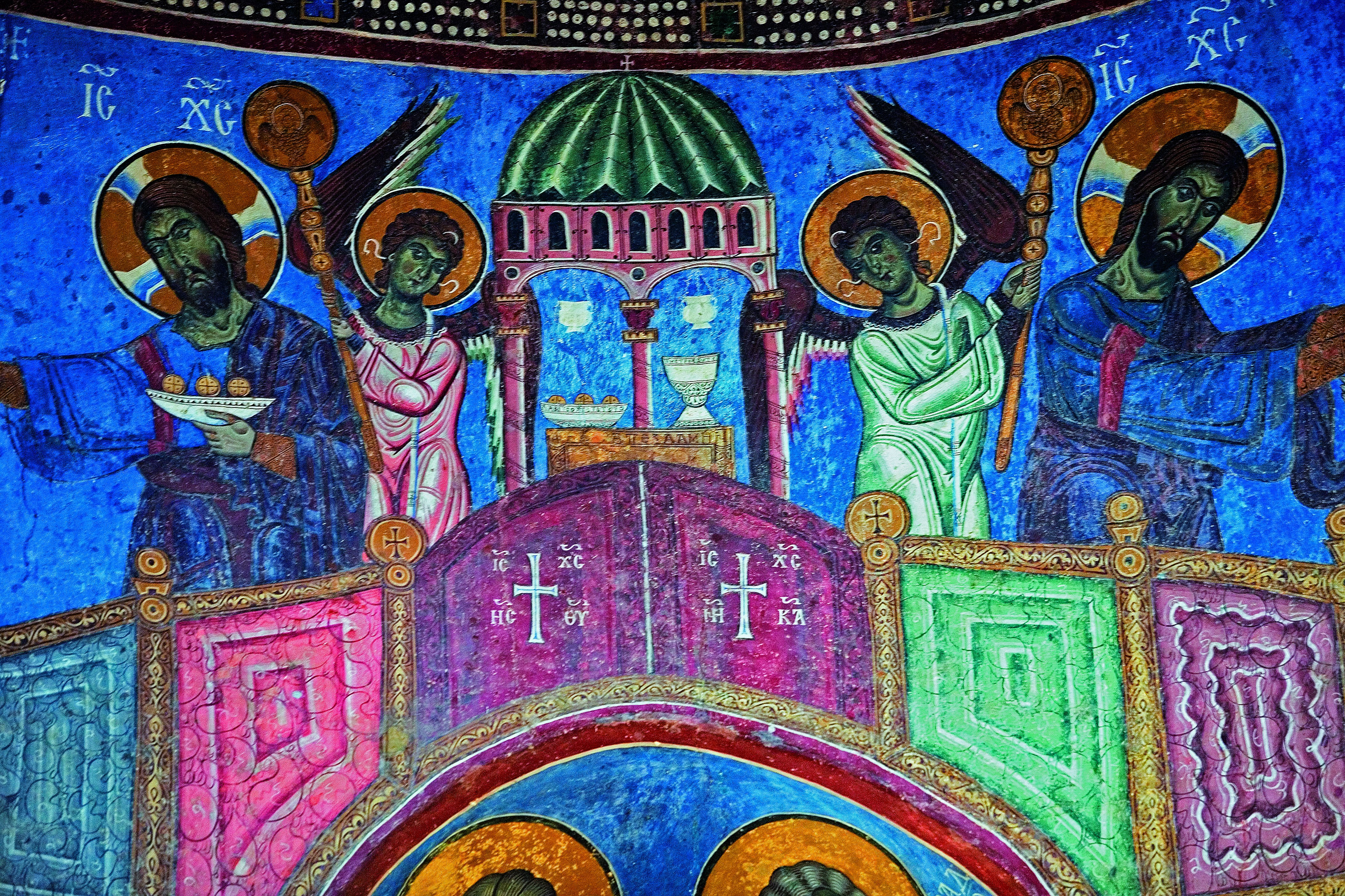 Akhtala Fort